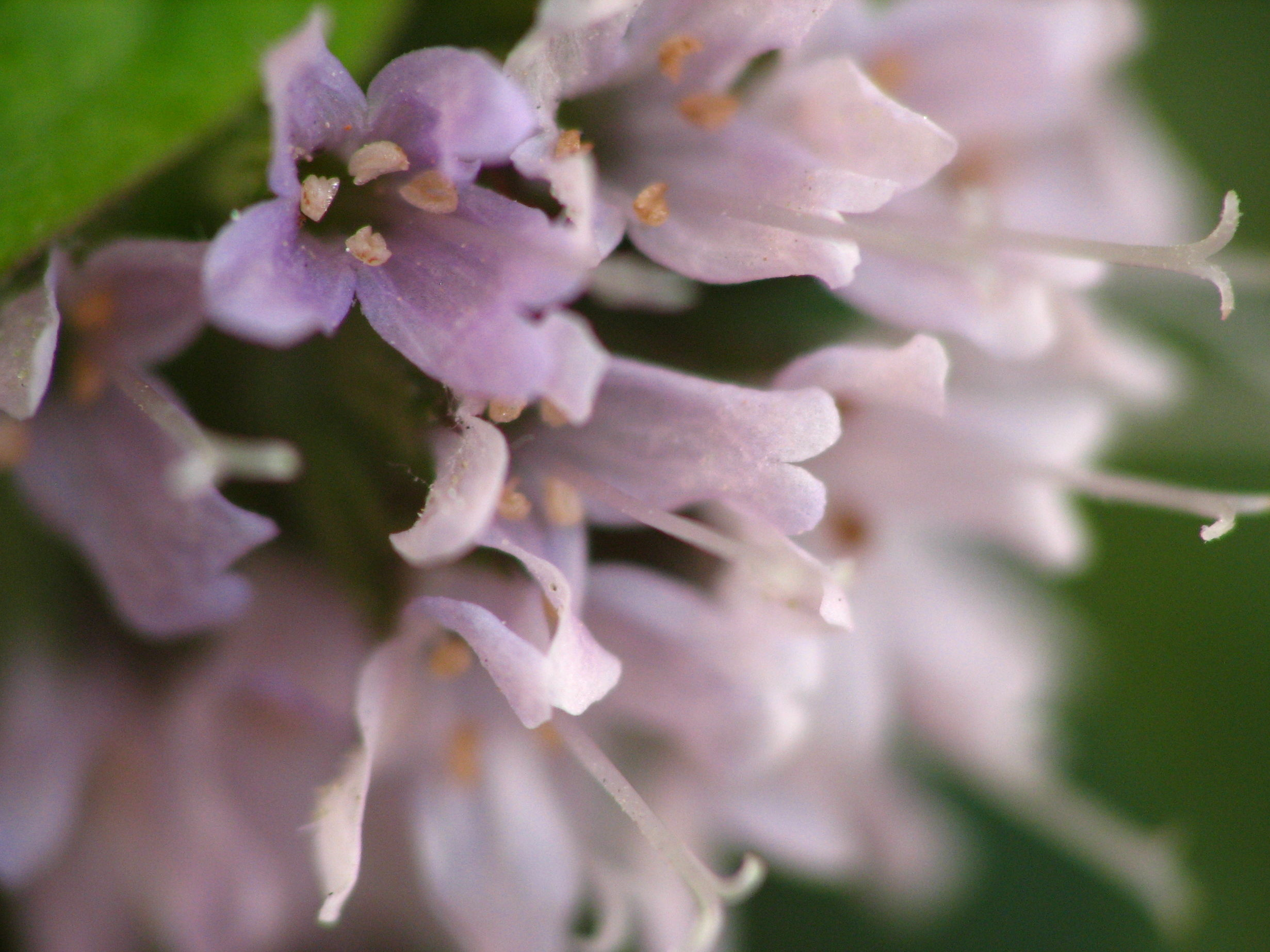 Mentha aquatica (flower - stamen)